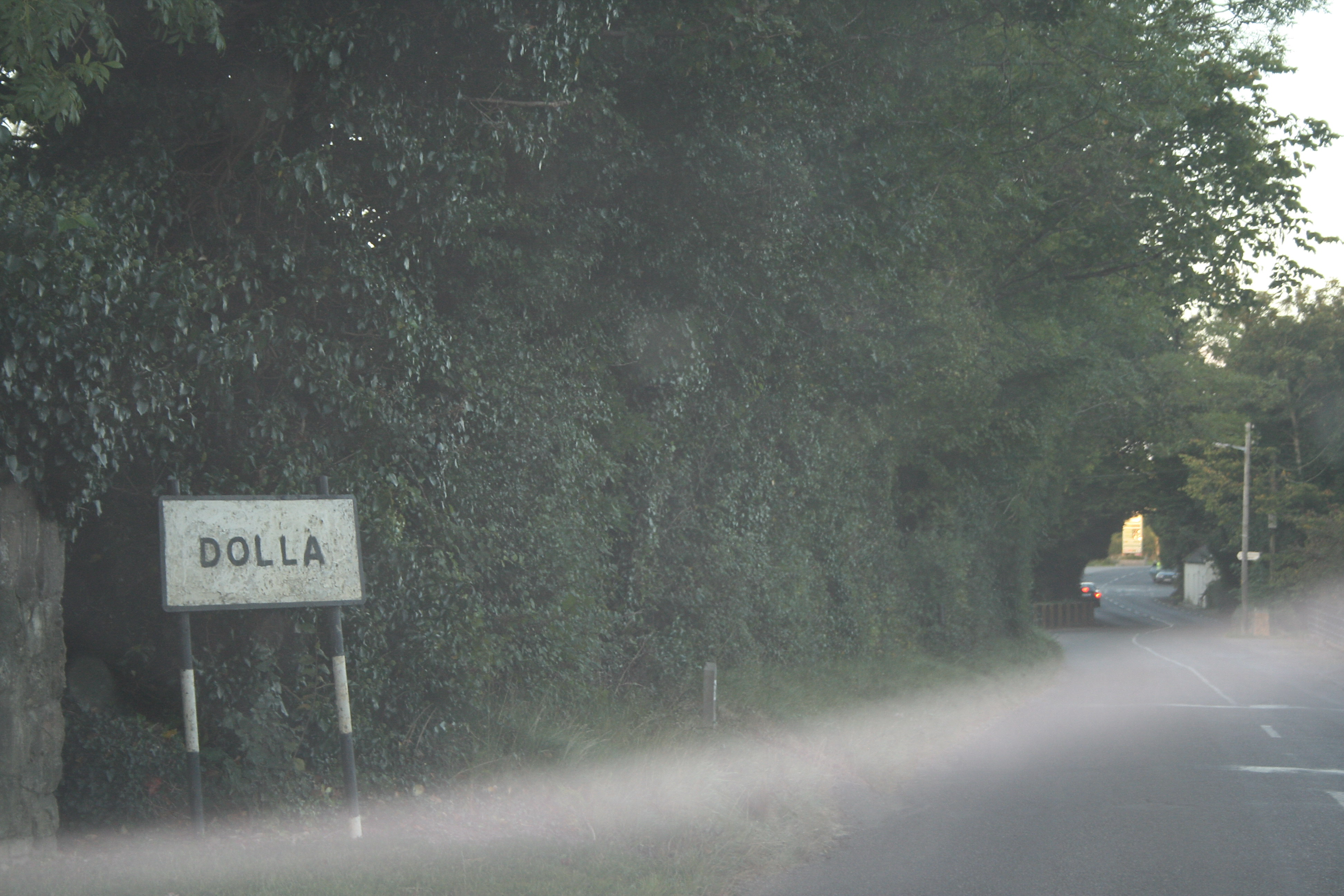 Dolla, County Tipperary, Ireland.(Sarah777 22:44, 10 October 2007 (UTC))